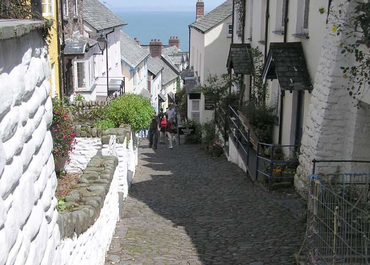 Looking down part of the 400 foot (120 metre) descent from the car park to Clovelly harbour. The Bristol Channel can be seen at the top of the picture. Taken by Adrian Pingstone in July 2004 and released to the public domain.